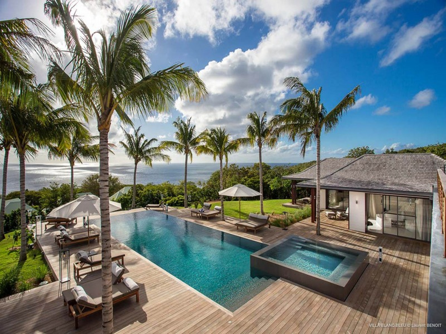 Villa Collection by onefinestay